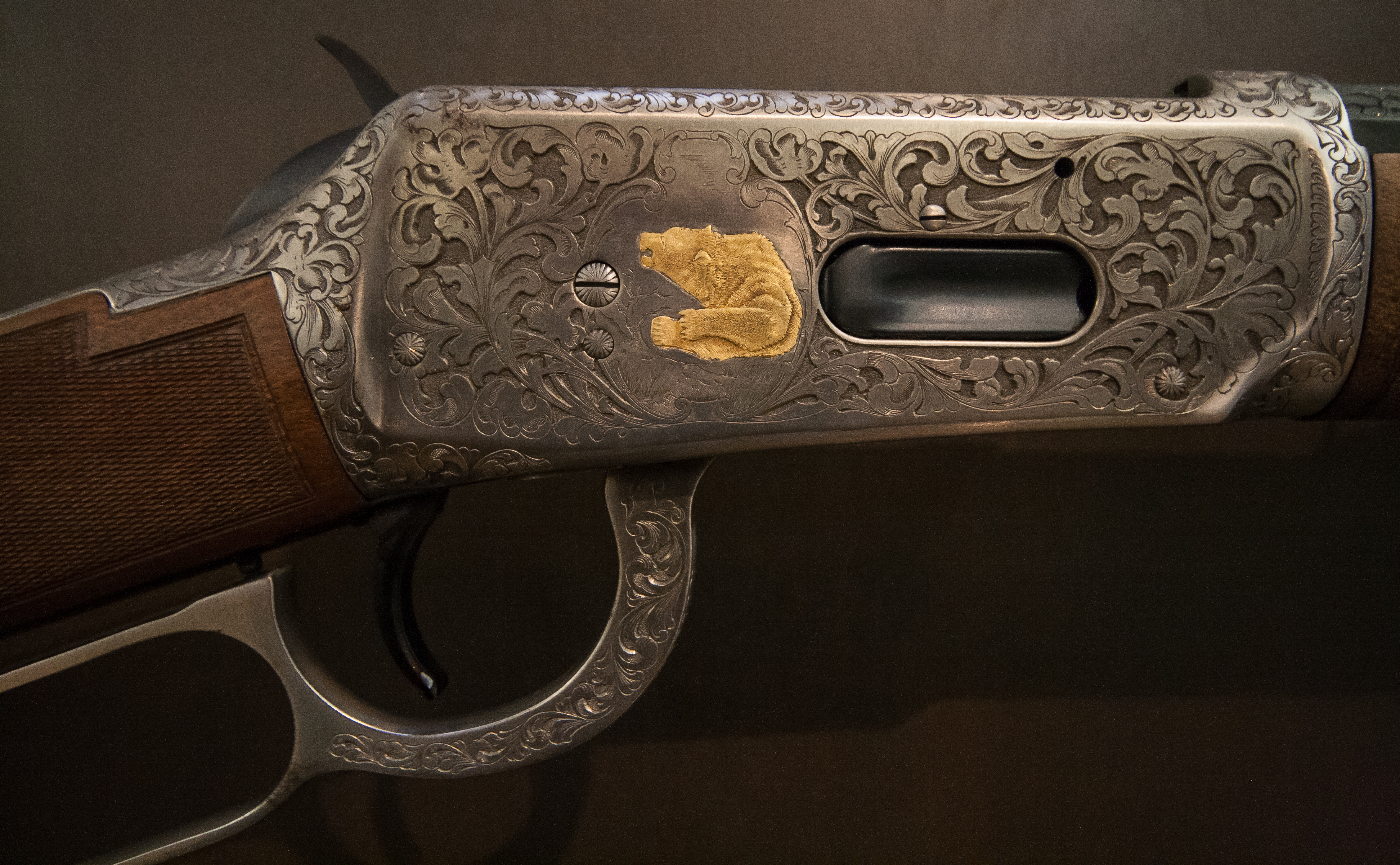 Trigger guard and plate fully chiselled with a gold inlay of a bear. Weapons Department in the Museum of Art and Industry in Saint-Étienne, France.